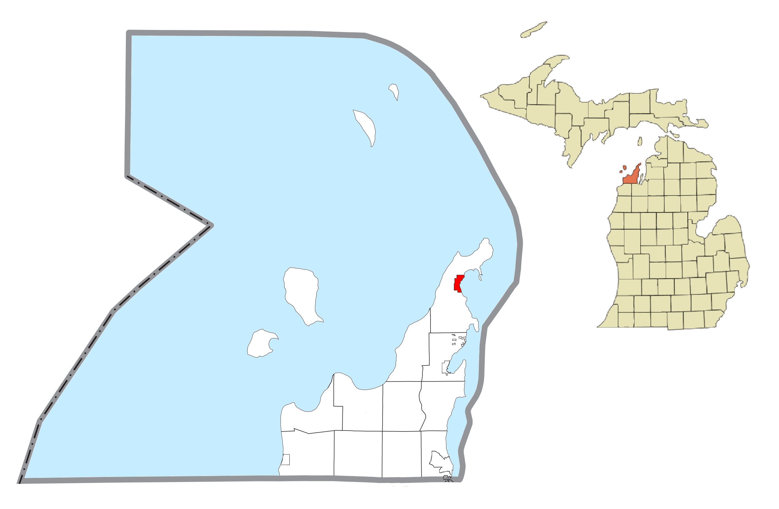 Northport, MI